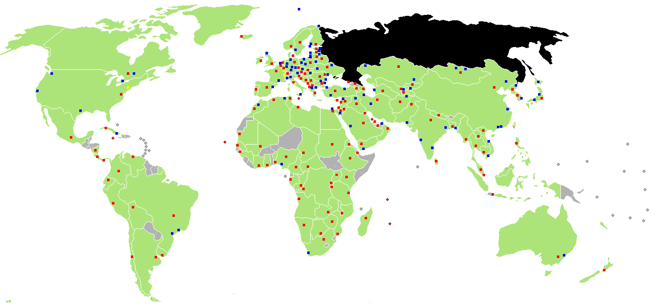 Diplomatic missions of Russia: Embassy Consulate Permanent Mission